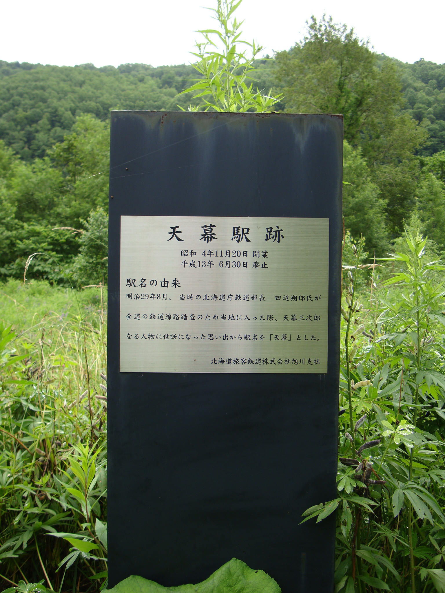 Tenmaku Station removal trace